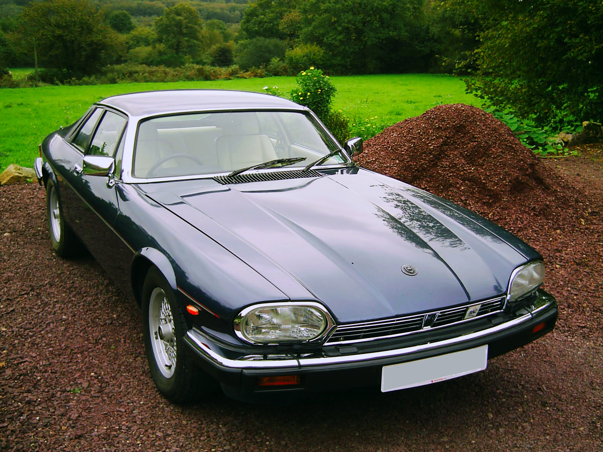 1991 XJ-S 3,6l model